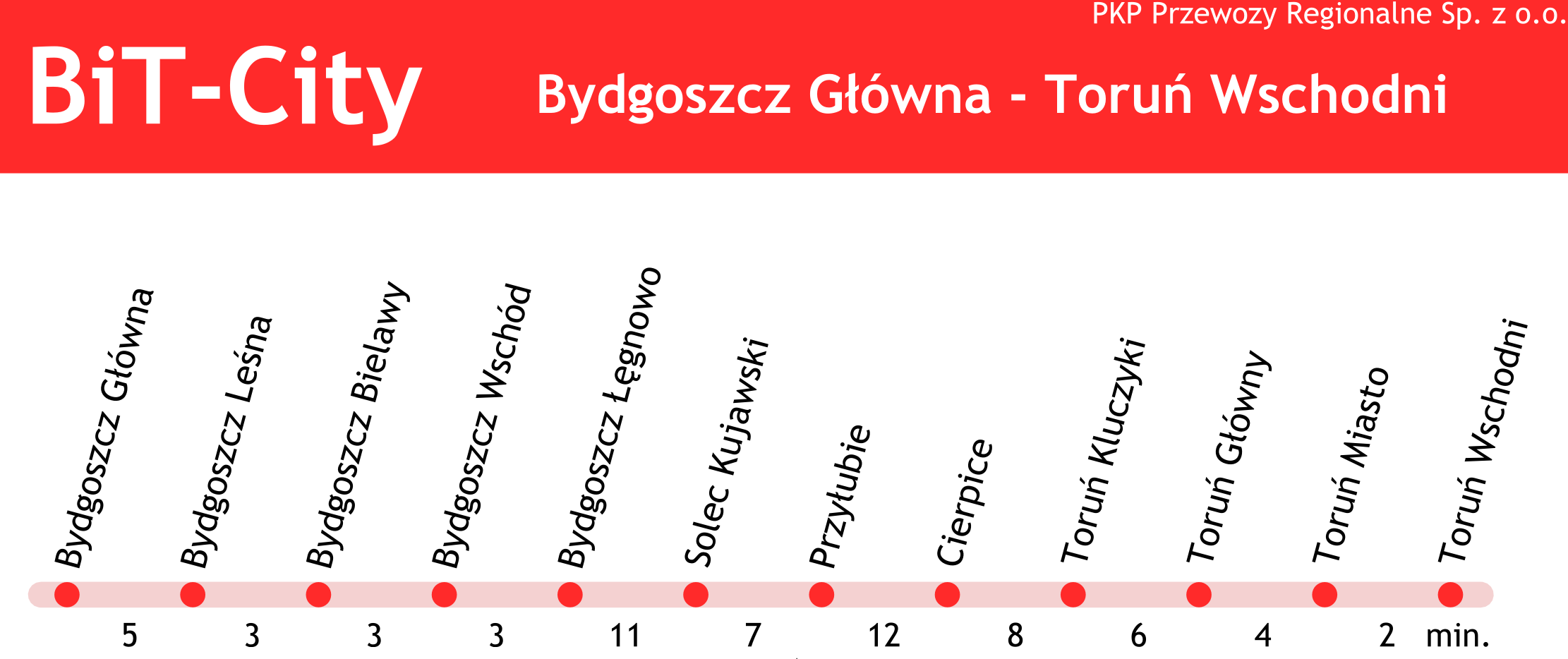 Stops of BiT-City route